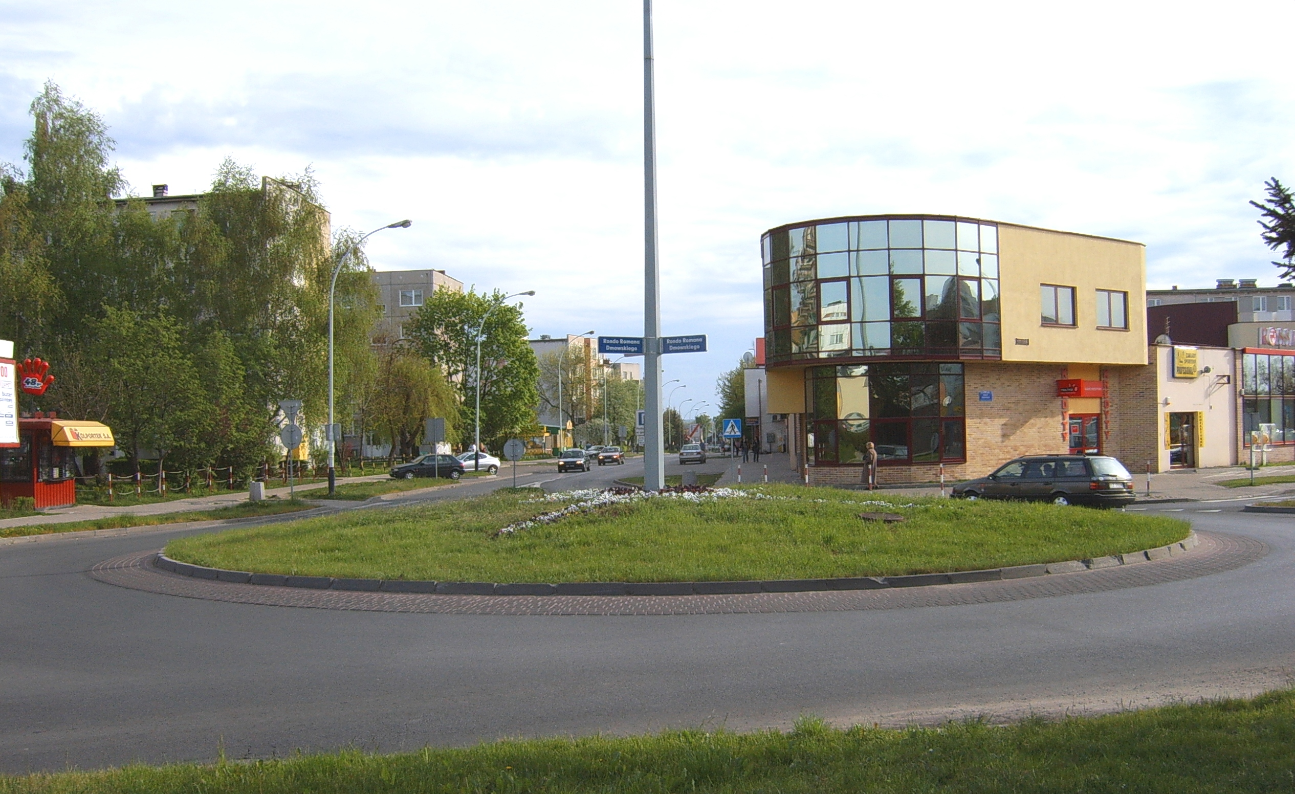 R. Dmowski roundabout in Zamość, Poland